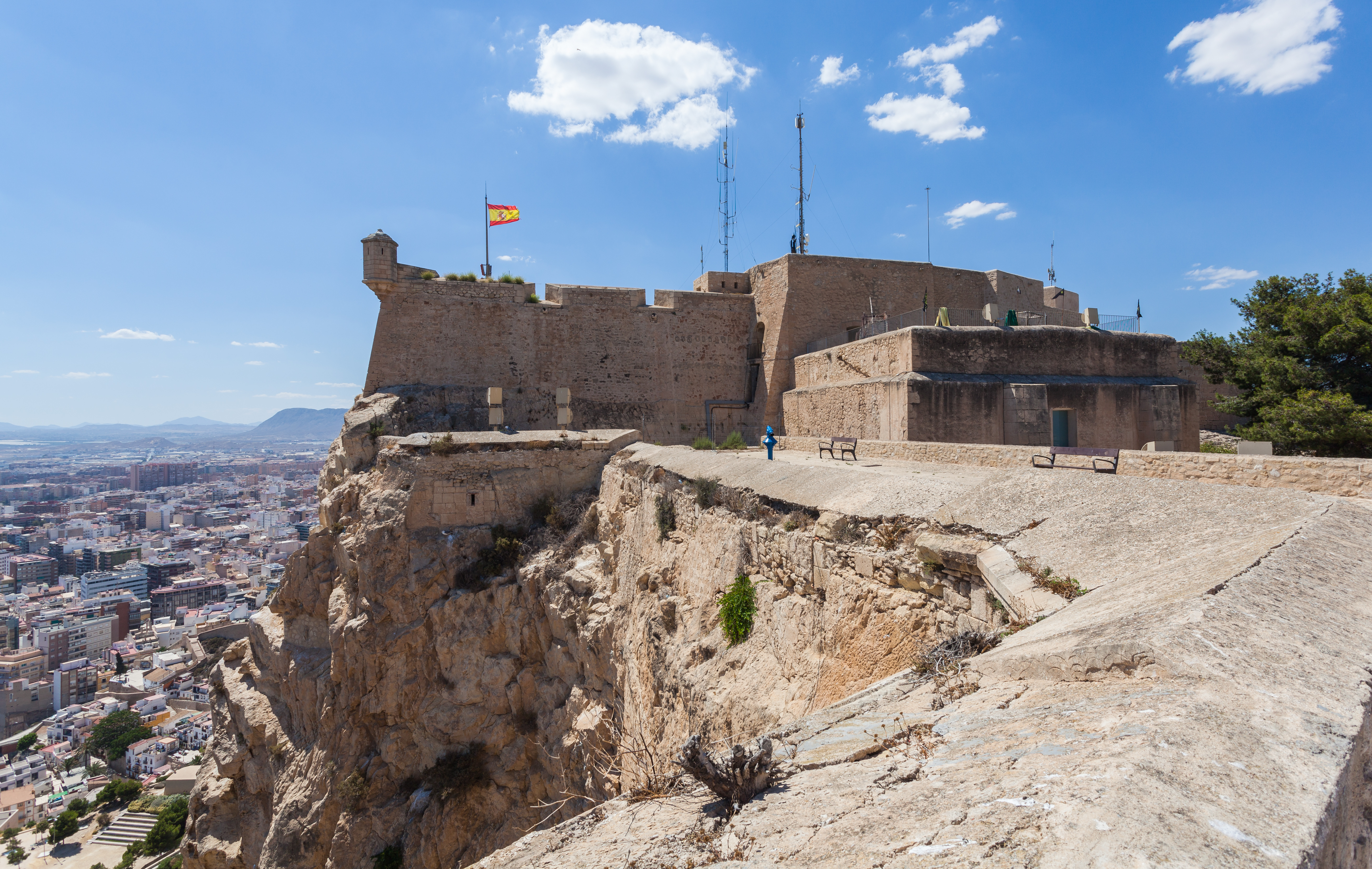 Castle of Santa Barbara, Alicante, Spain